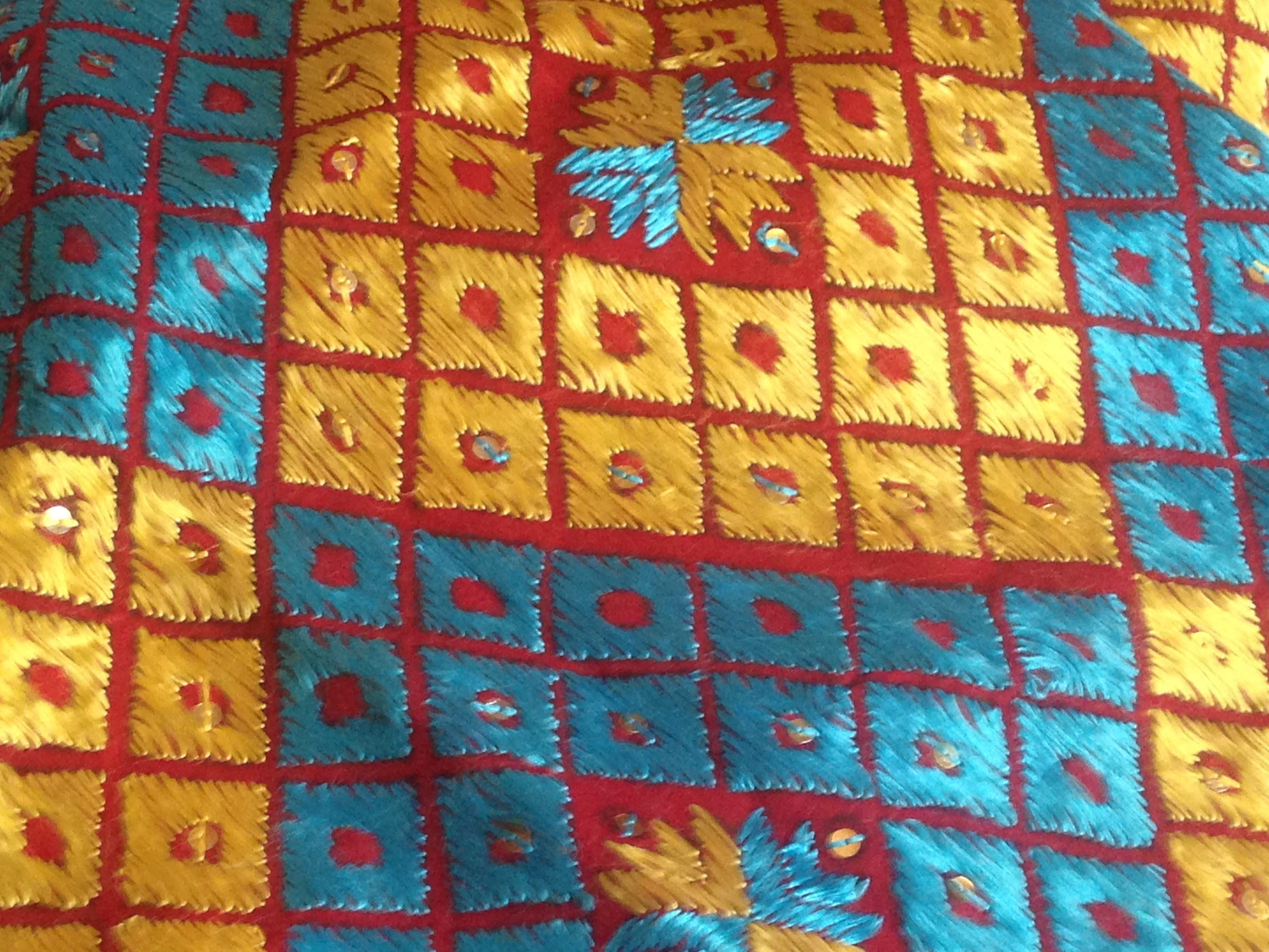 Hand embroidered Phulkari dupatta from Patiala